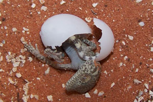 A Spider gecko hatching from its egg.